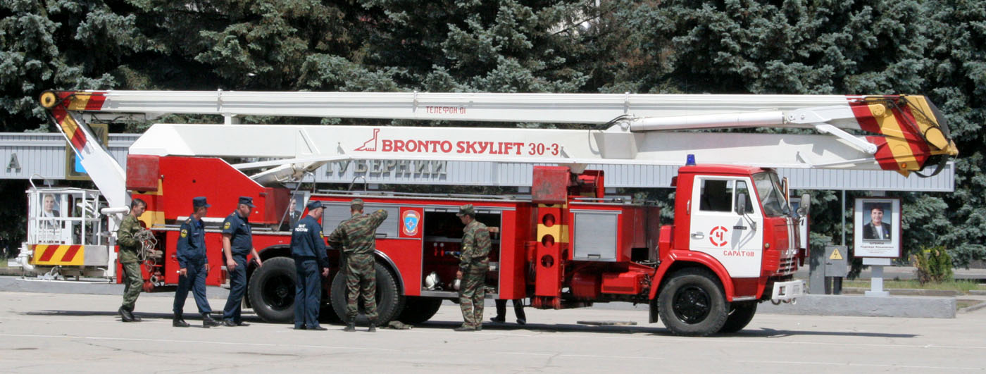 Kamaz-based fire hoist.